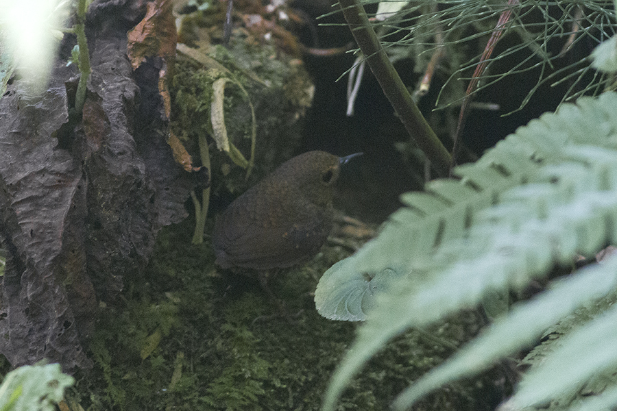 The species Pygmy Wren Babbler had been photographed from Khangchendzonga Biosphere Reserve in West Sikkim, India during the birding tour of GoingWild on 20.02.2016.